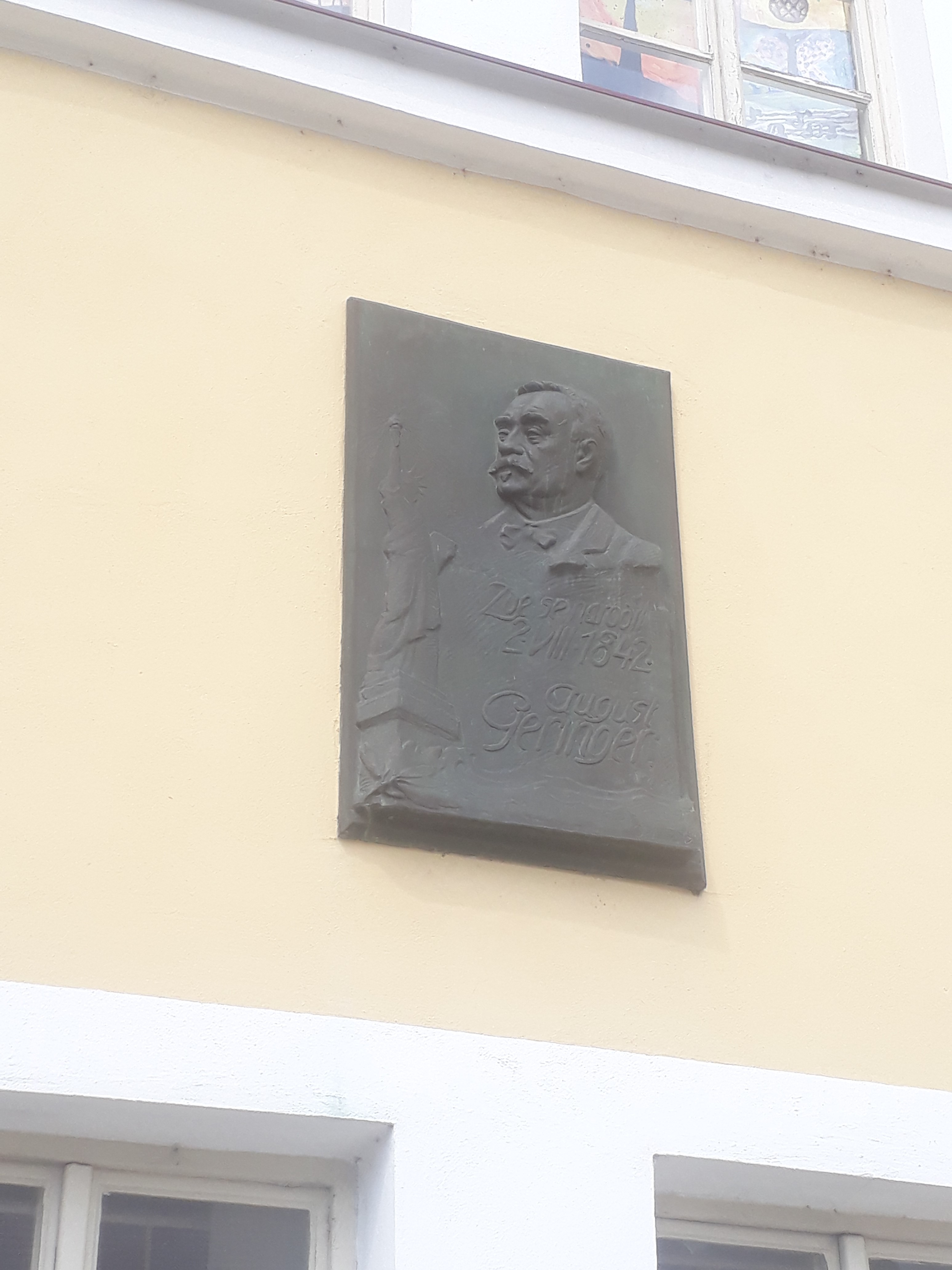 Memorial plaque of publisher August Geringer (1842-1930) on his birthplace on main square in Březnice, Příbram District.